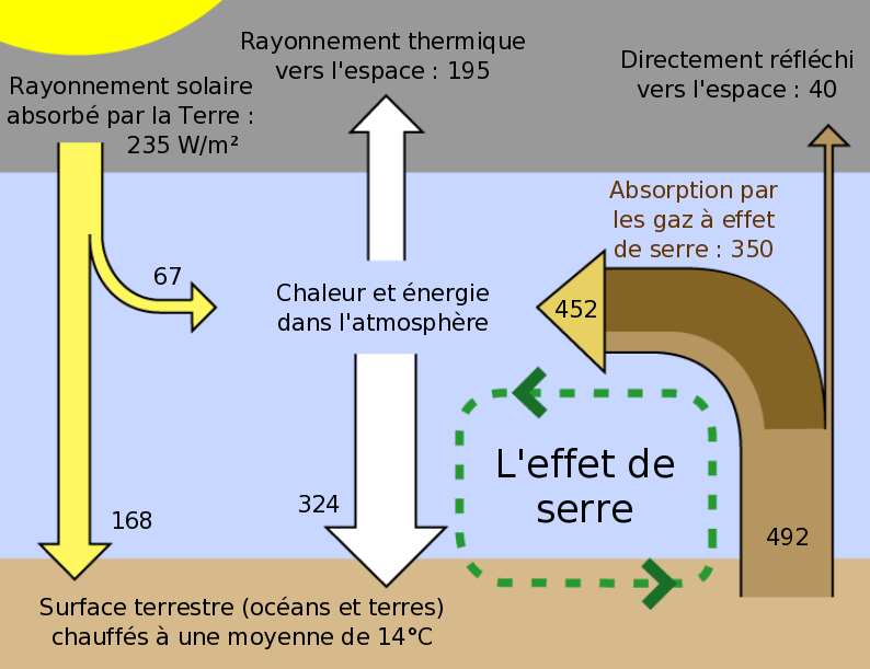 This figure is a simplified, schematic representation of the flows of energy between space, the atmosphere, and the Earth's surface.